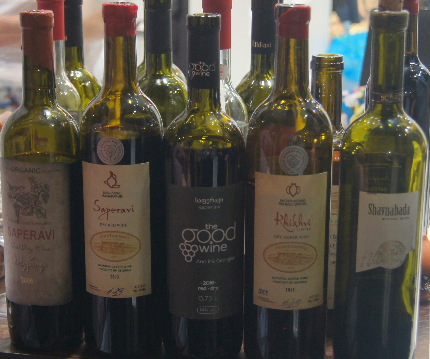 Quality wine from Georgia, red & white